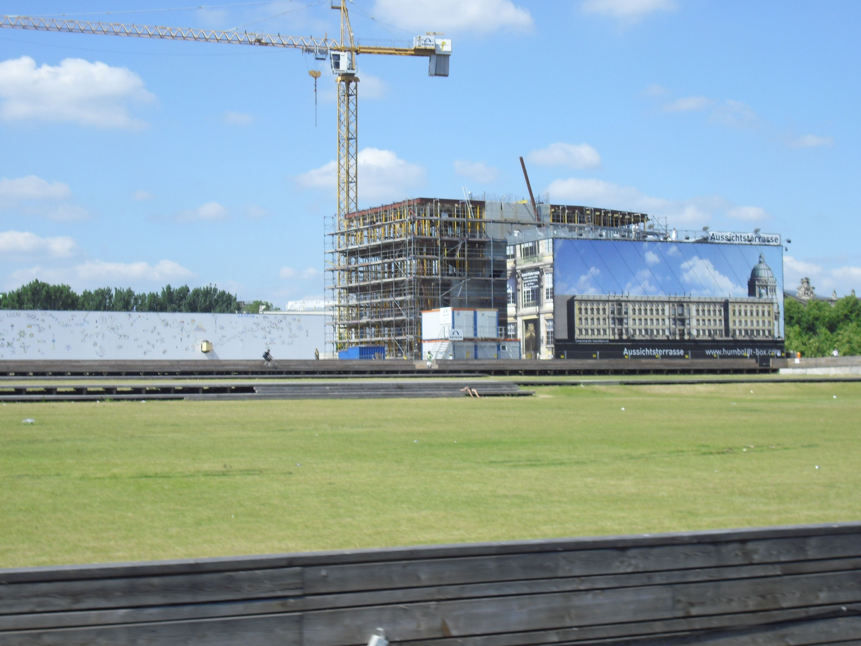 Construction site for the future rebuilding of the Berliner Stadtschloss on the Museum Island, Berlin.